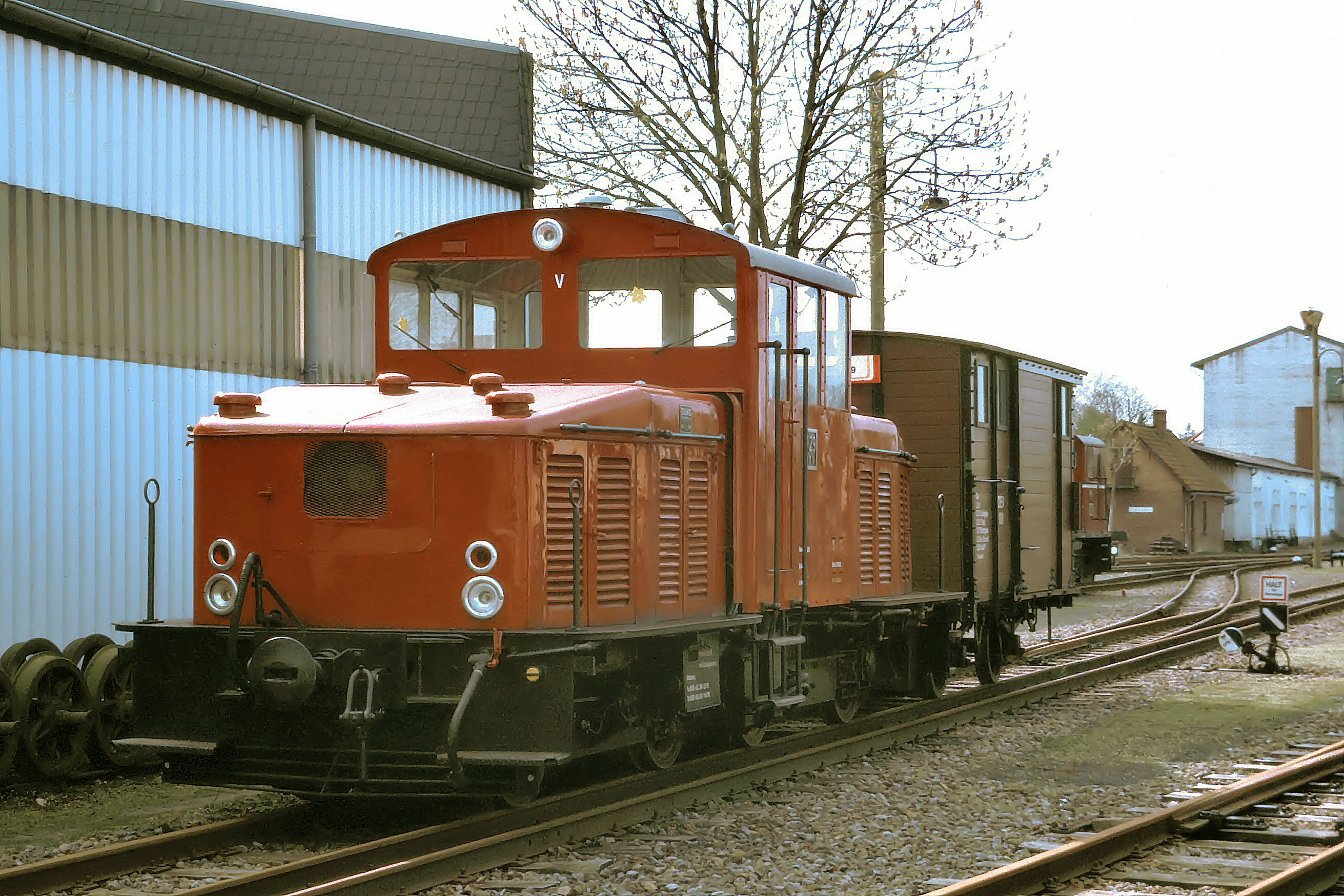 Deutsche Bundesbahn DB V29 narrow gauge Kleinbahn locomotive (ex DB V29 952) belonging to the German Railway Society in Bruchhausen-Vilsen.